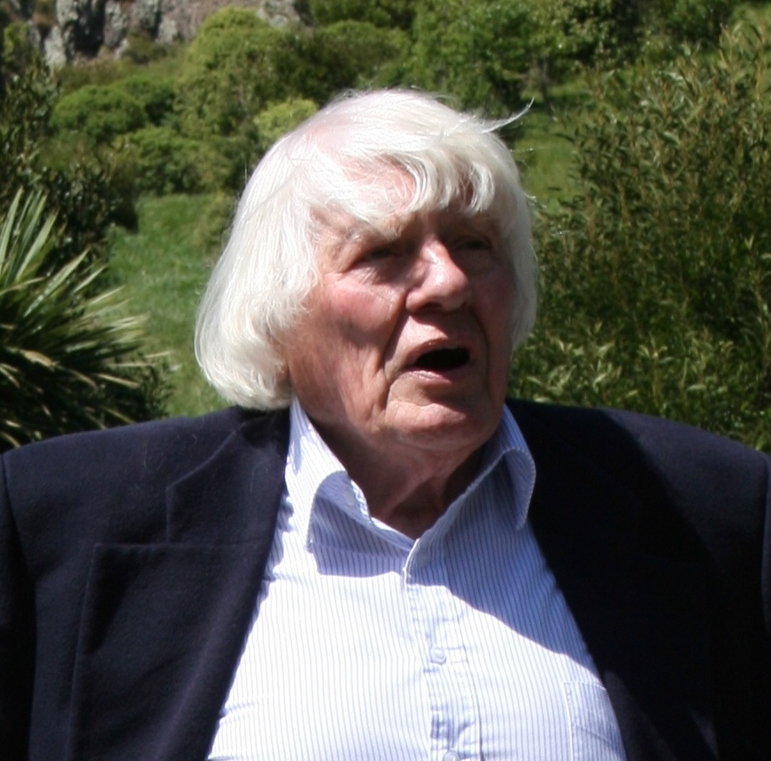 Architect Peter Beaven near the Lyttelton Road Tunnel Administration building.